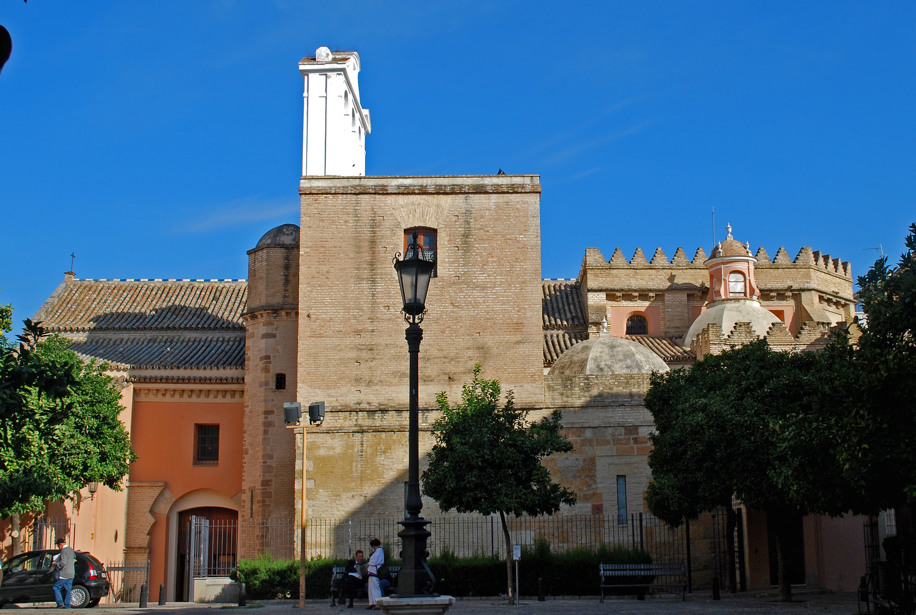 Church of St Andrés, Seville